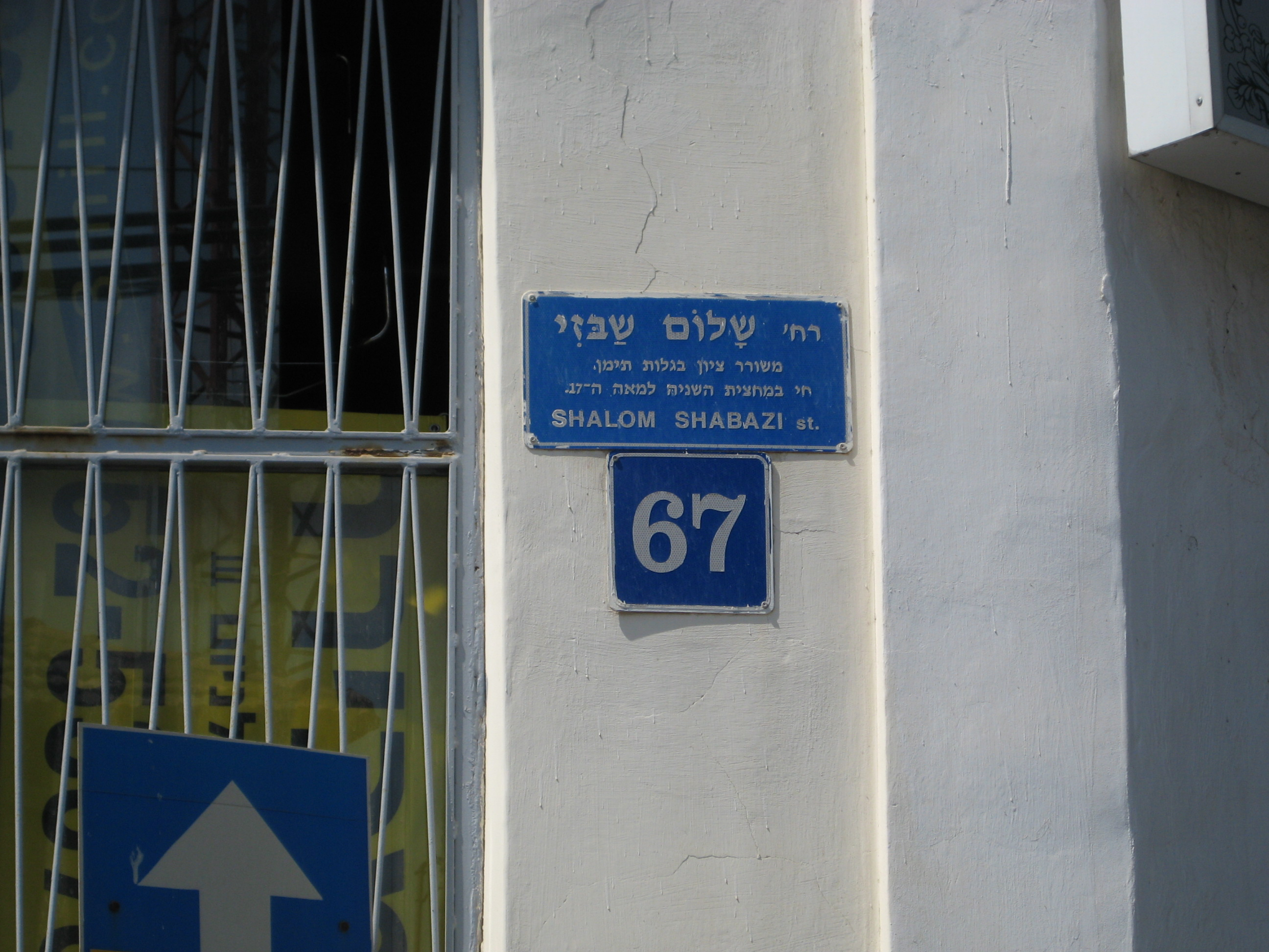 Shalom Shabazi street, Tel Aviv